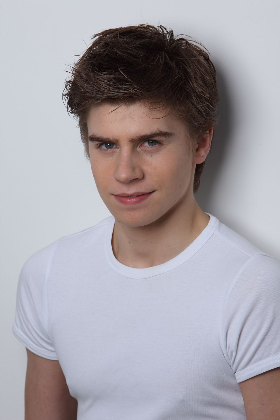 A foto which was taken during a Fotoshoot with Sam Dejonghe